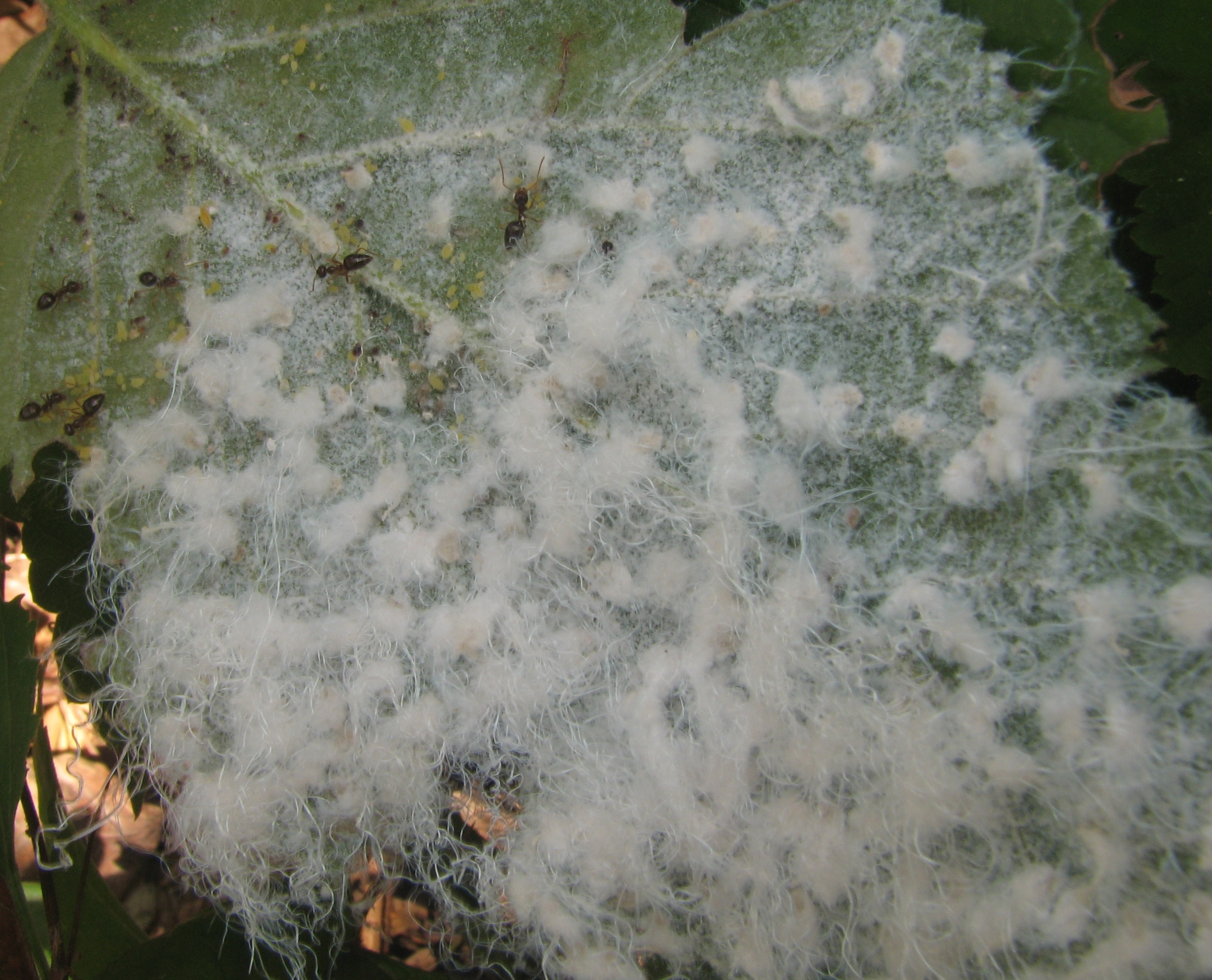 Phylloplecta tripunctata (blackberry psyllid) on the underside of leaf of Rubus. Pennypack Restoration Trust, Montgomery County, Pennsylvania, USA.